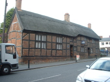 The framework knitters cottages, Hinckley, Leicestershire, UK. Carly Nicholls Source: I took the photo.